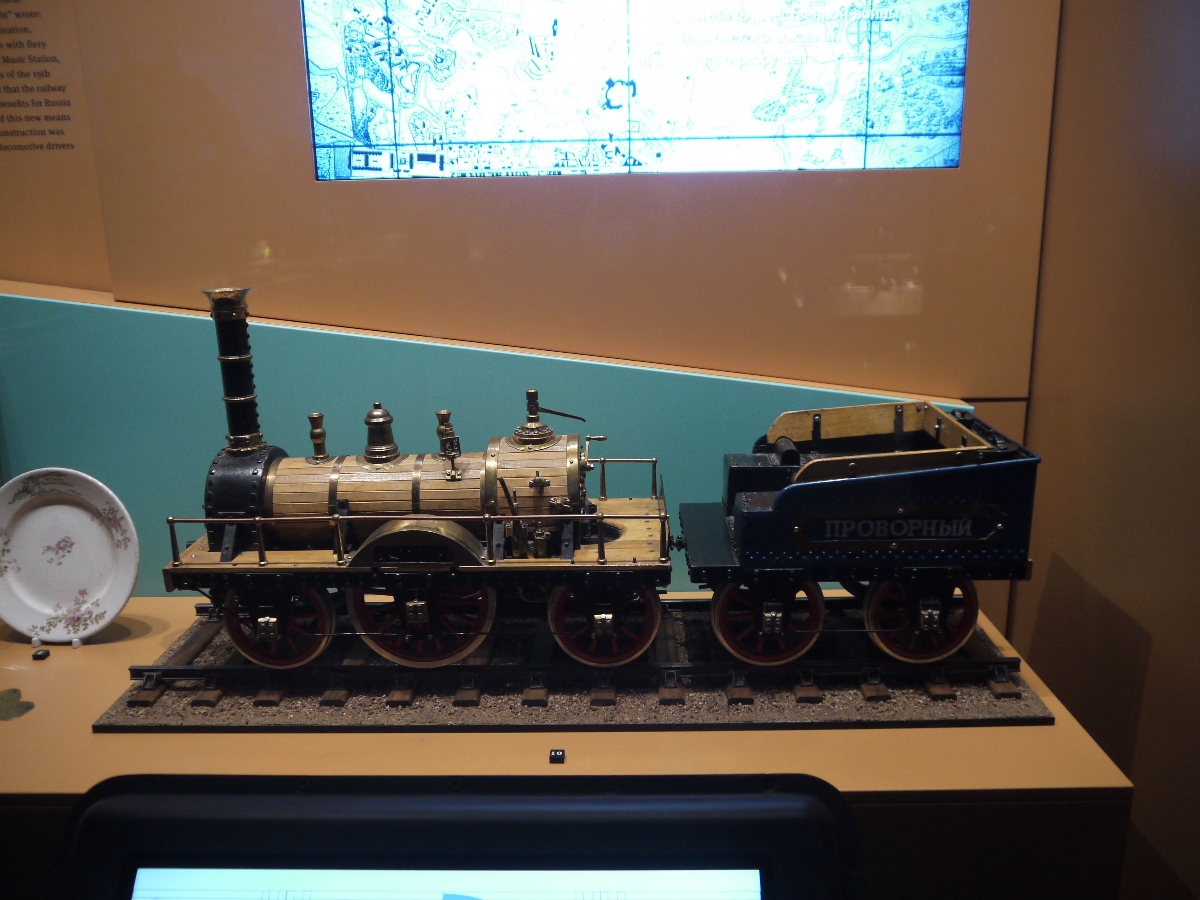 a model of 'Provorny' Russia’s first main line passenger locomotive built by Robert Stephenson, Russian Railway Museum. It ran on the Tsarskoye Selo Railway. The Russian Railway Museum is adjacent Baltiysky Railway station, Saint Petersburg